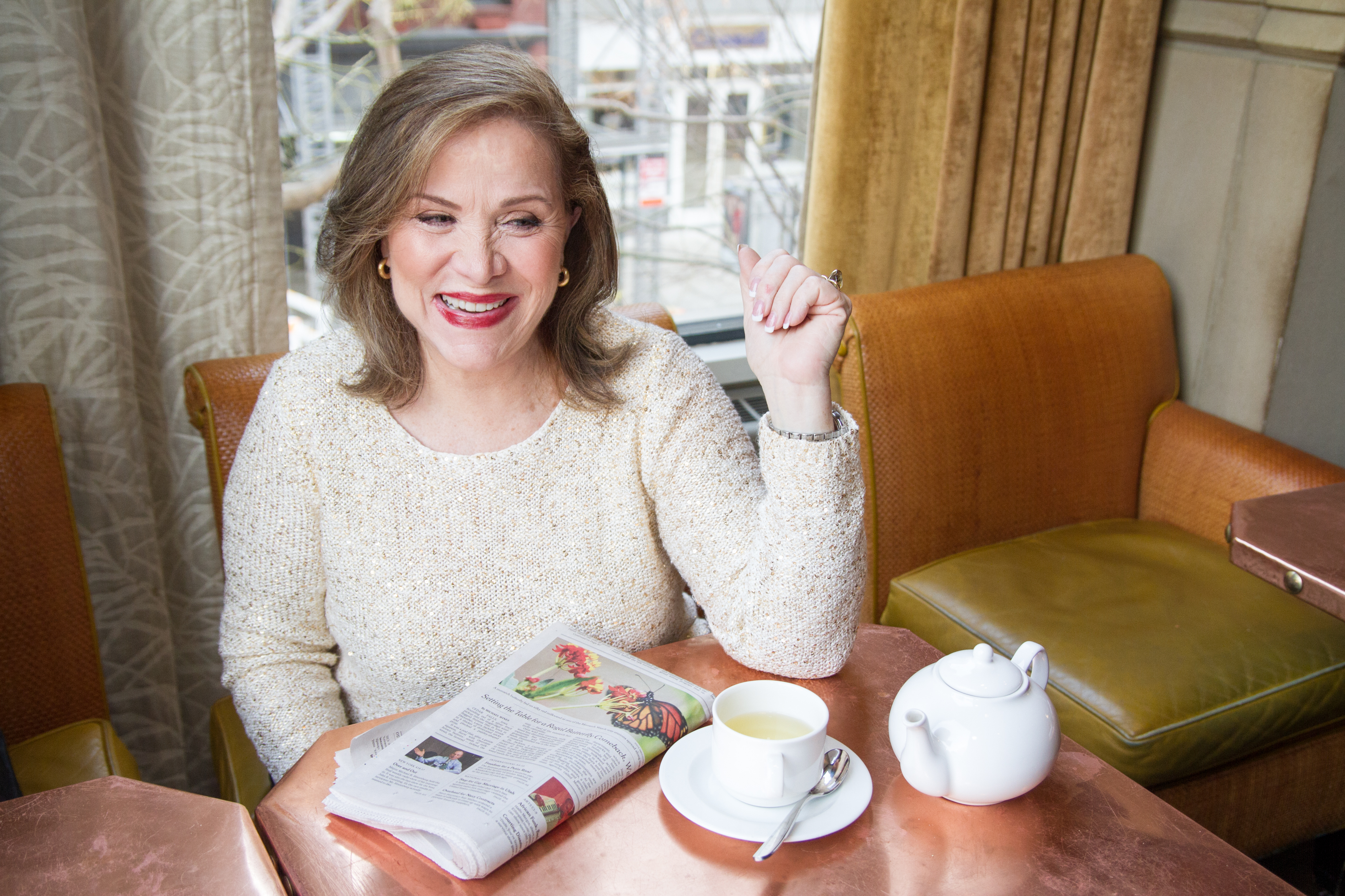 Candid photo taken by me at Soho Grand Hotel in Manhattan, New York City 2013